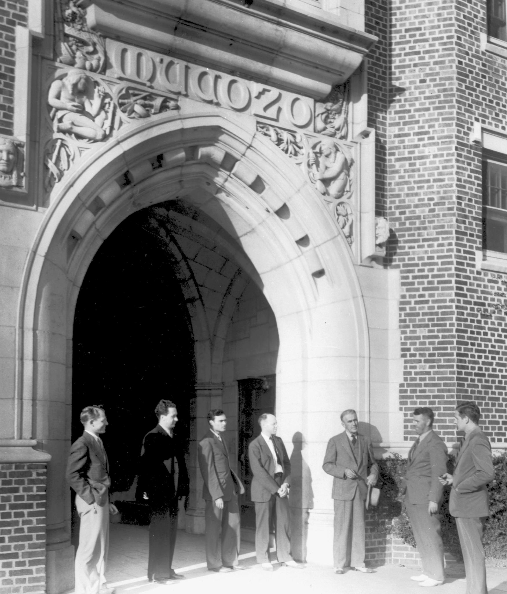 A historic photo of the Sledd Hall